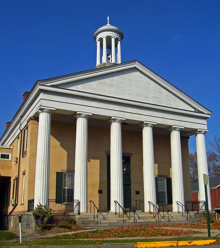 Photographed by Daniel Case 2006-11-11